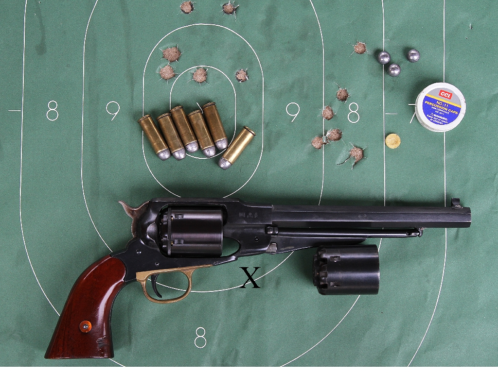 Groups with Uberti replica of Remington New Model Army Patent acquired 1858. Top group is from .45 Colt R&D cylinder and bottom with standard ball and black powder. Common aiming point "X." 25 yards one handed.